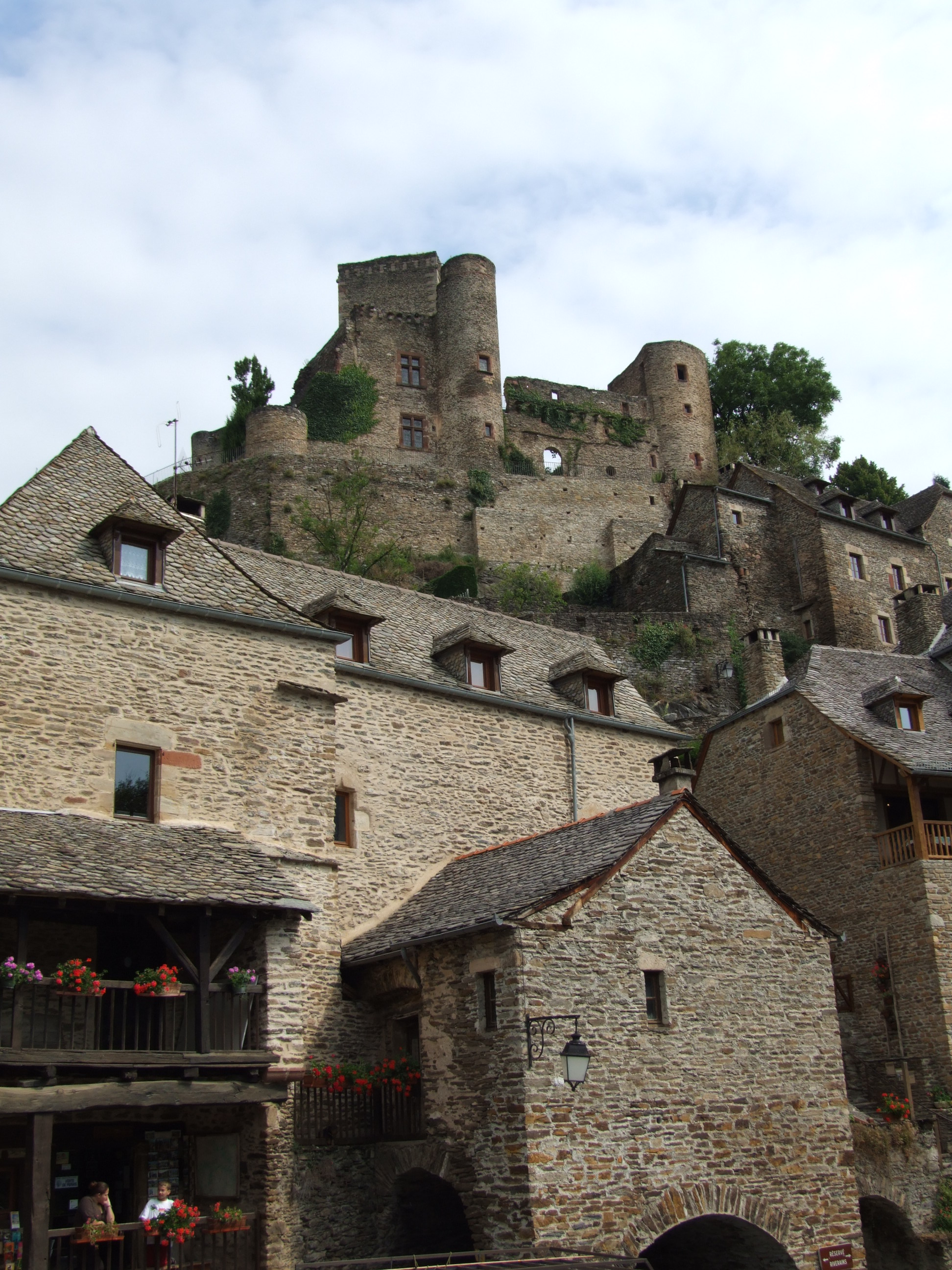 Belcastel, Aveyron, FRANCE